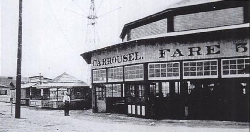 Postcard c. 1905 of the carousel building at Bergen Beach amusement park, which was open from 1896 to 1918